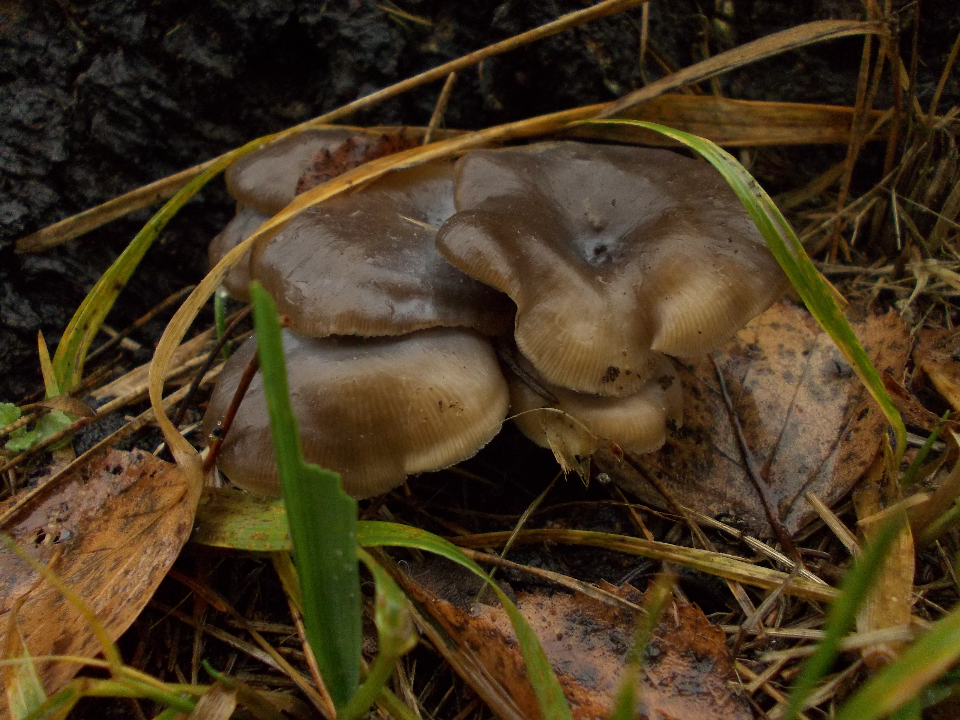 Myxomphalia maura